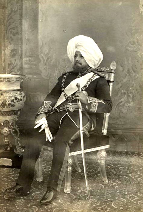 Maharaja Partab Singh (1848 - 1925). Silver gelatin photo